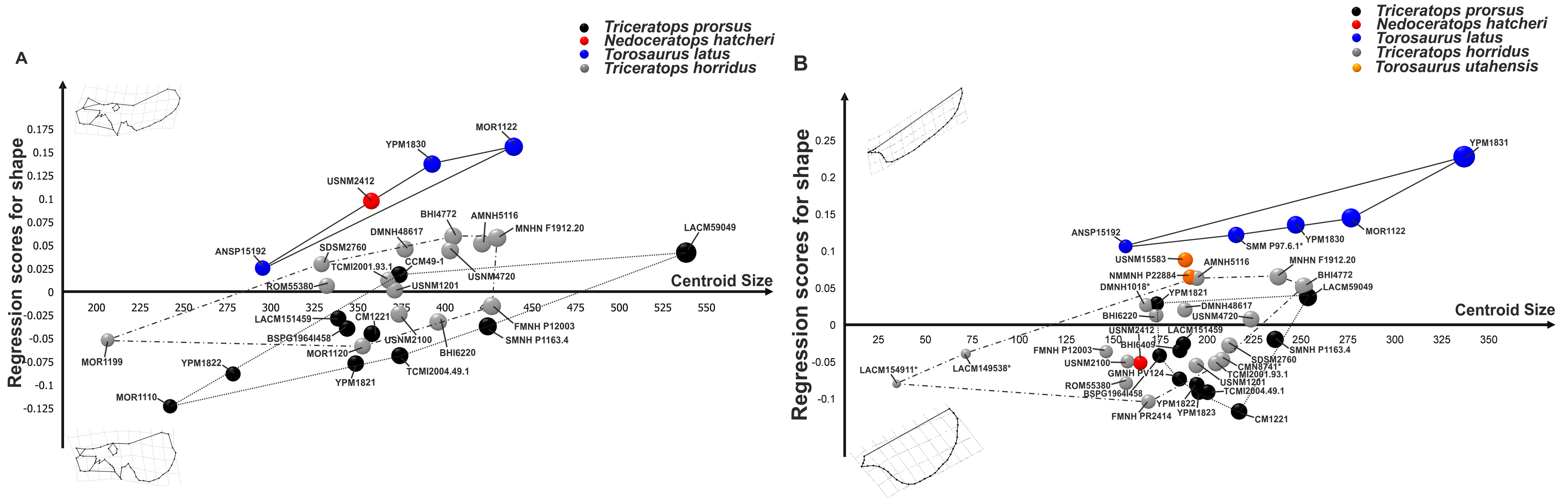 Principal Component Analysis and linear regression between shape and size performed on skulls. A, morphological changes in skull shape associated with size. Points dimensions are proportional to specimen Centroid Size. The continuous line represents Torosaurus latus morphospace. The dotted line represents Triceratops prorsus morphospace, and the dashed line represents Triceratops horridus morphospace. Principal Component Analysis and linear regression between shape and size performed on squamosals. B, morphological changes in squamosal shape associated with size. Points dimensions are proportional to specimen Centroid Size. An asterisk indicates specimens with dubious species assignation. The continuous line represents Torosaurus latus morphospace. The dotted line represents Triceratops prorsus morphospace, and the dashed line represents Triceratops horridus morphospace.